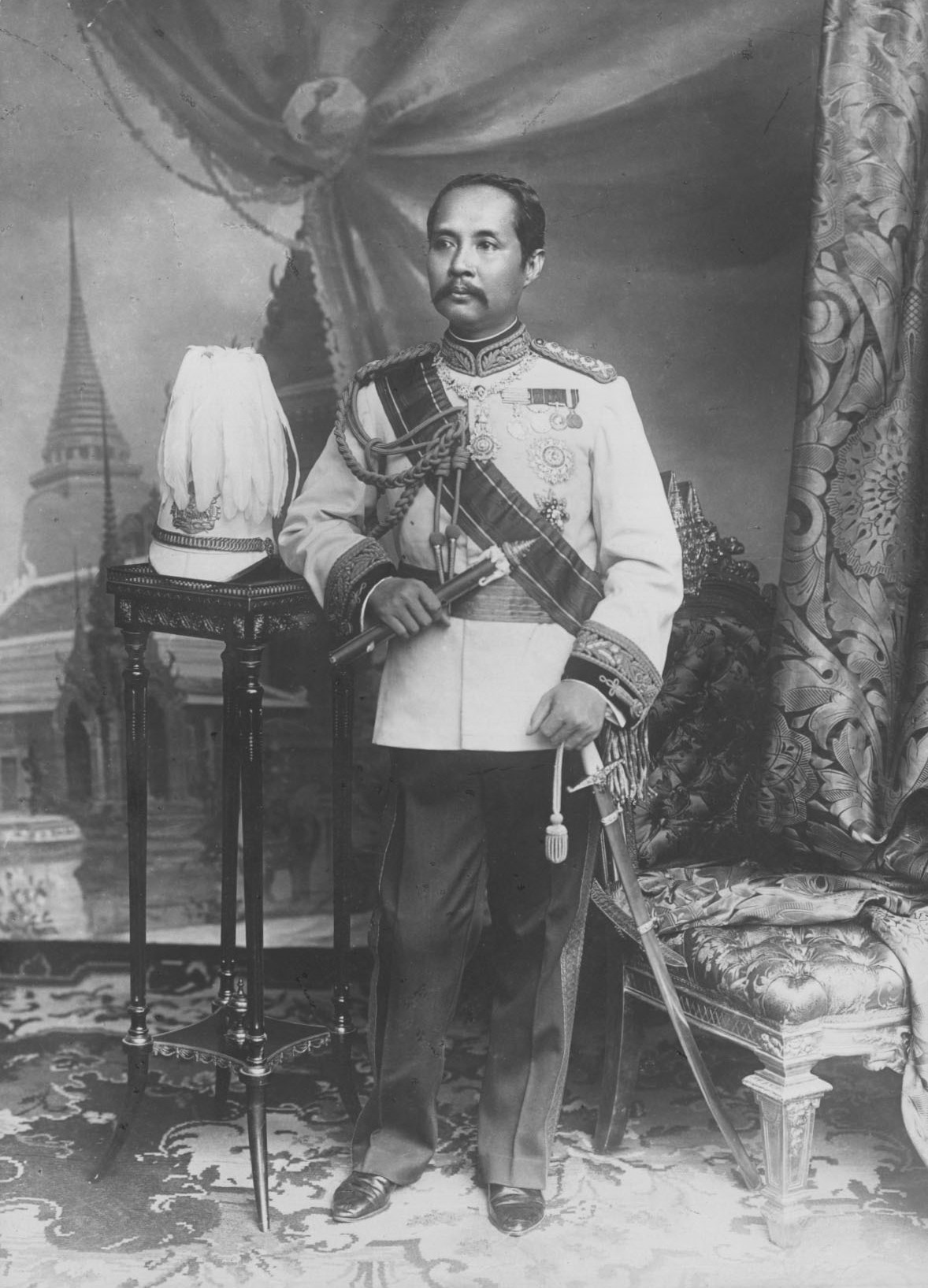 Photograph of King Chualongkorn in full uniform.